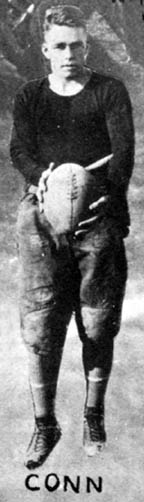 Promotional photo of Oregon State player coach George Tuffy Conn